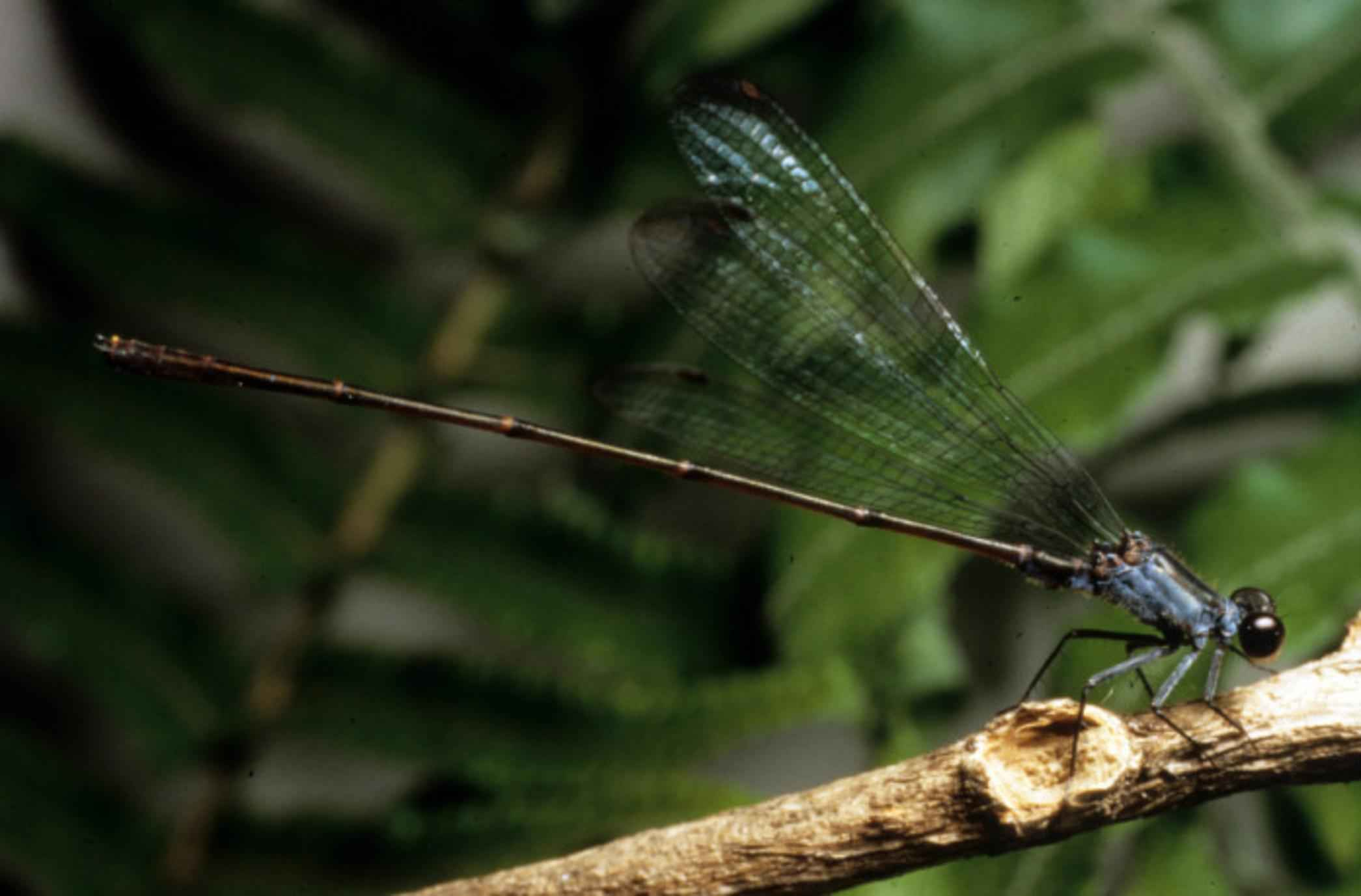 Image title: Flying earwig Hawaiian damselfly Megalagrion nesiotes Image from Public domain images website